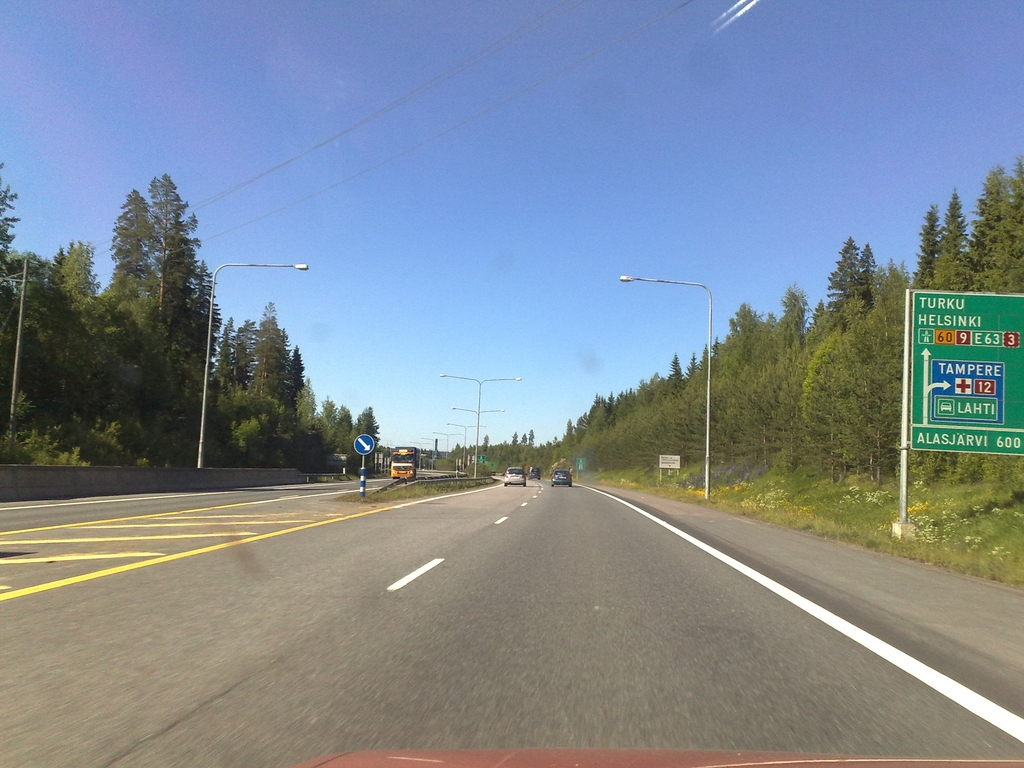 The beginning of highway in Tampere, Finland